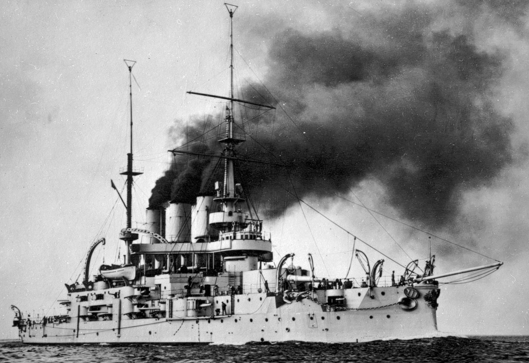 The Imperial Russian battleship Panteleimon (former Knyaz' Potemkin-Tavricheskiy), 1906.